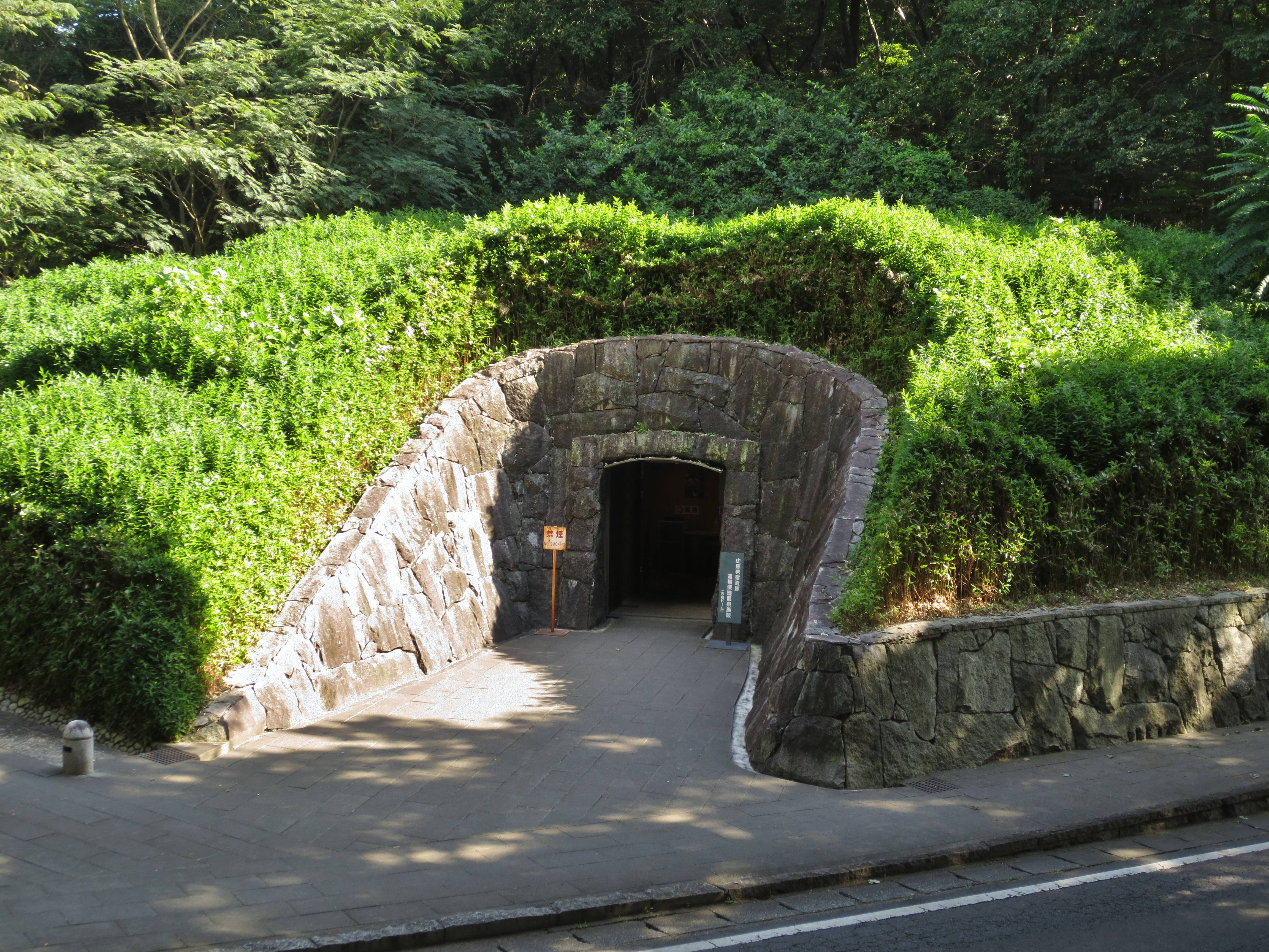 Iwajuku.